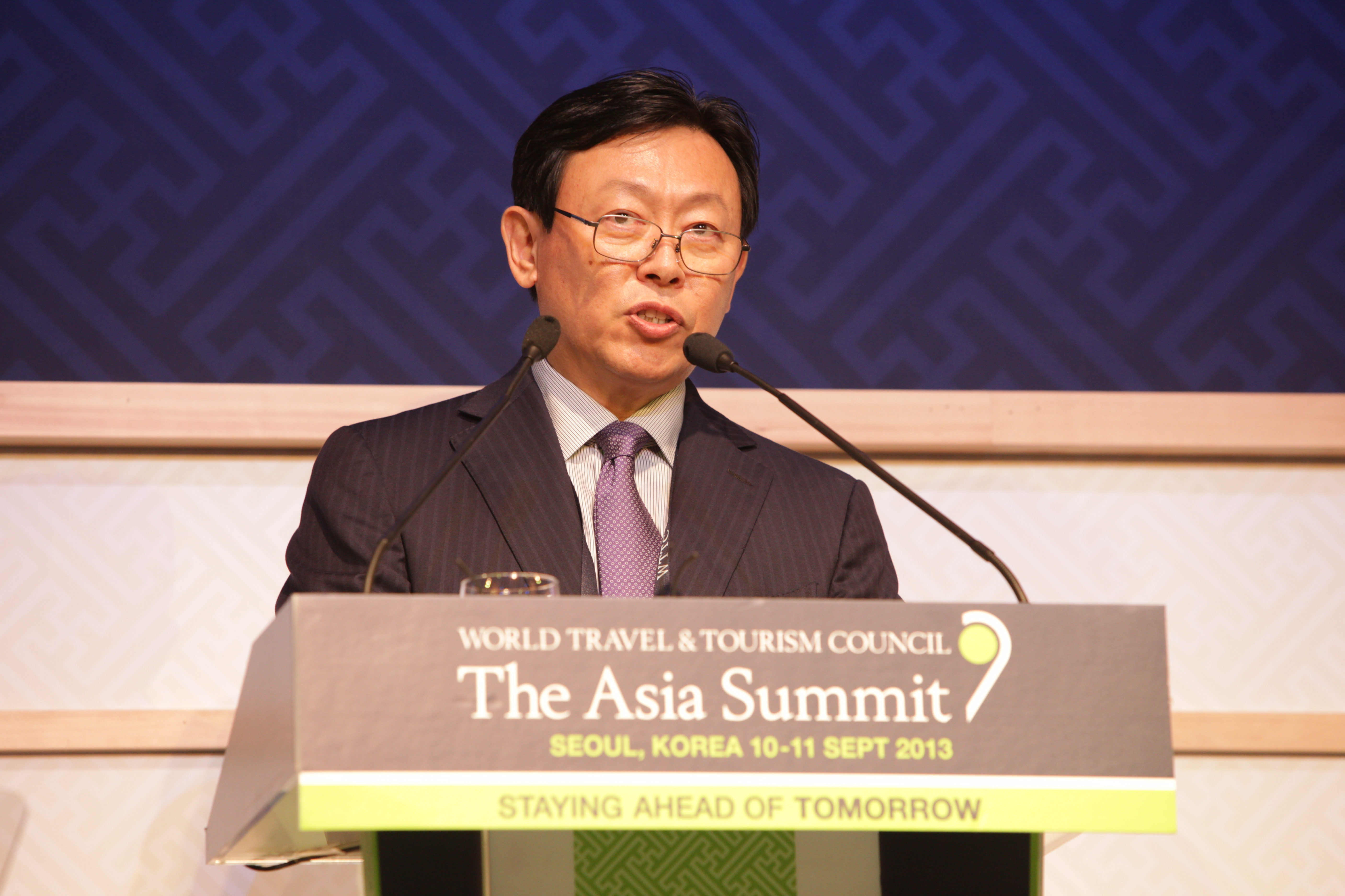 Dong-Bin SHIN (Chairman Lotte Group and Patron of The Asia Summit) addresses the opening session of the World Travel & Tourism Council Asia Summit